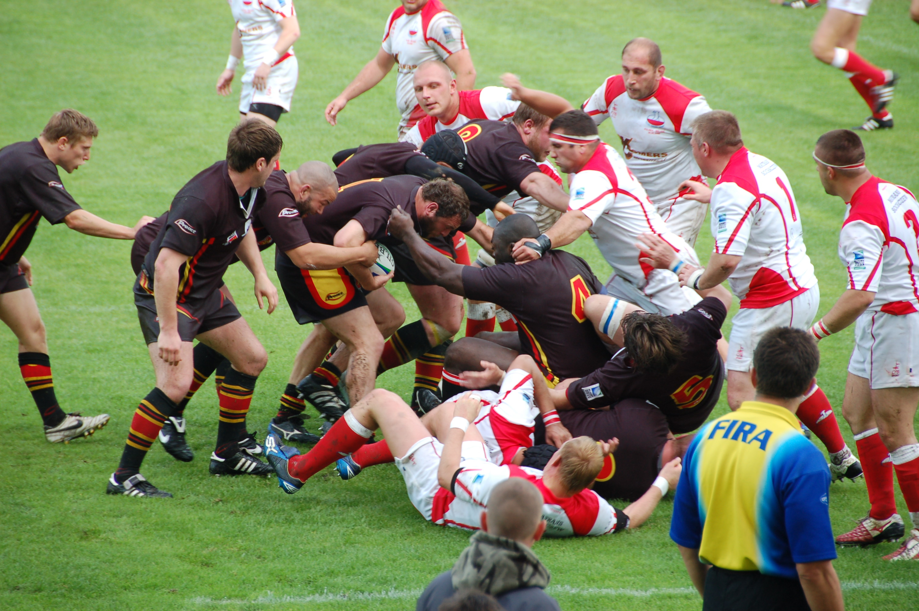 European Nations Cup Second Division Match between Poland and Belgium.